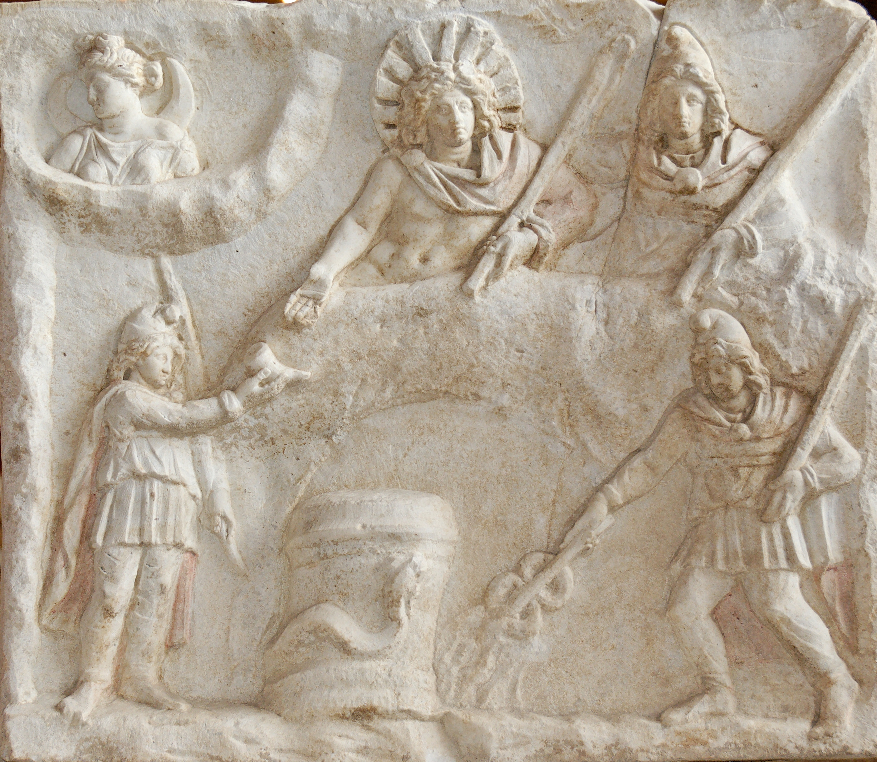 Side B (reverse) of a two-sided Mithraic relief. Found at Fiano Romano, near Rome "couché dans un petit réduit de briques" in 1926. White marble (H. 62cm, W. 67 cm, D. 16 cm) on a travertine base (H. 10cm, W. 76cm, D. 50cm). 2nd-3rd century. This (reverse) face of the monument depicts a banquet scene. In the middle, a bull's hide, of which the head and one hindleg are visible. Sol and Mithras recline on it side by side. Mithras holds a torch in his left hand and extends his right hand behind Sol. Sol is dressed only in a cape, fastened on his right shoulder with a fibula. Around Sol's head is a crown of eleven rays. He holds a whip in his left hand and extends the right towards a torchbearer who offers him a rhyton. In the lower right is another torchbearer, with raised torch in his left hand. In his right hand, a caduceus held into the water emerging from the ground. In the middle, an altar in the coils of a crested snake. In the upper left corner, Luna in a cloud, looking away. Traces of red paint on the attire of Sol, Mithras and the torchbearers. The obverse face of this monument is a tauroctony scene. See File:Mithras_tauroctony_Louvre_Ma3441b.jpg